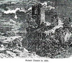 1866 drawing of Ciceu castle